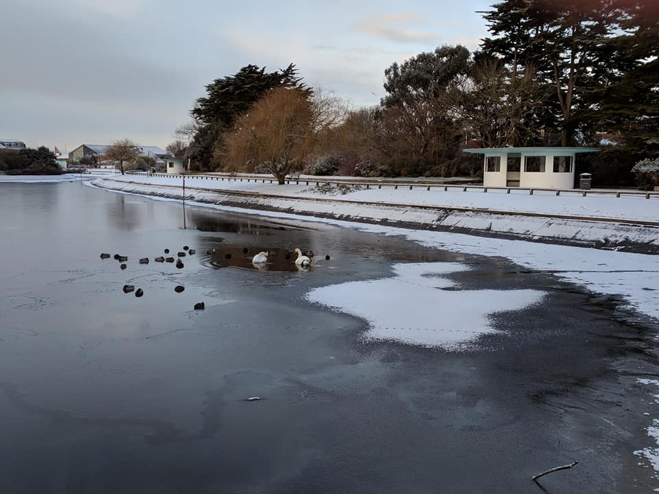 Snowy scene at Mewsbrook with art deco shelter